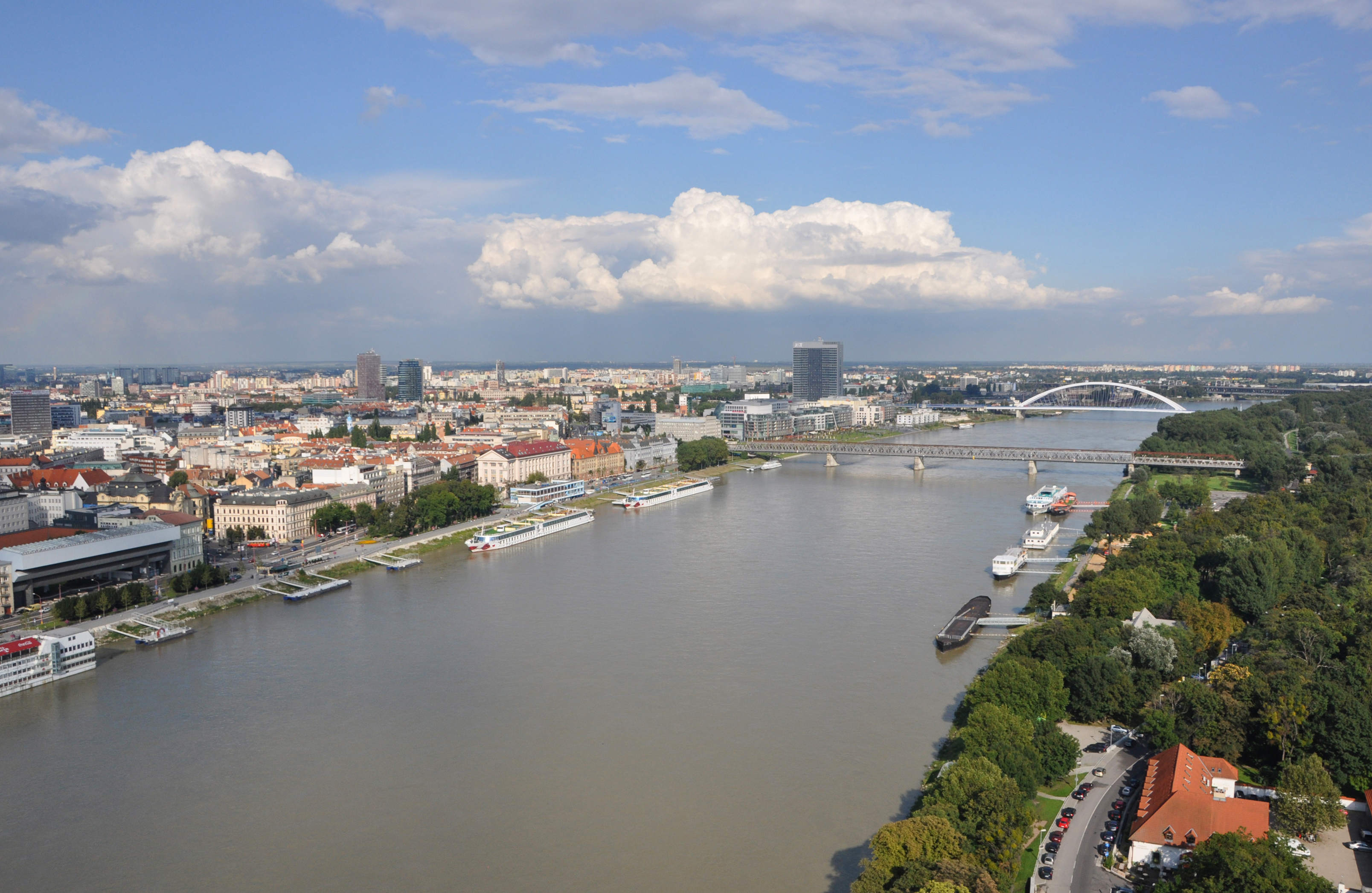 Bratislava (Slovakia): the Danube, with the Old Bridge (Starý most) and the Apollo Bridge